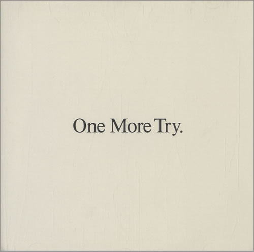 Cover of "One More Try" single by George Michael